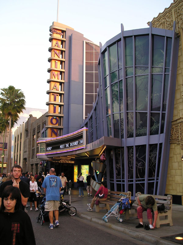 Disney Animation attraction in California Adventure by Ellen Levy Finch (user:Elf) Feb 2006